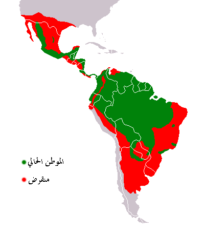 Distribution map of Panthera onca with text in Arabic